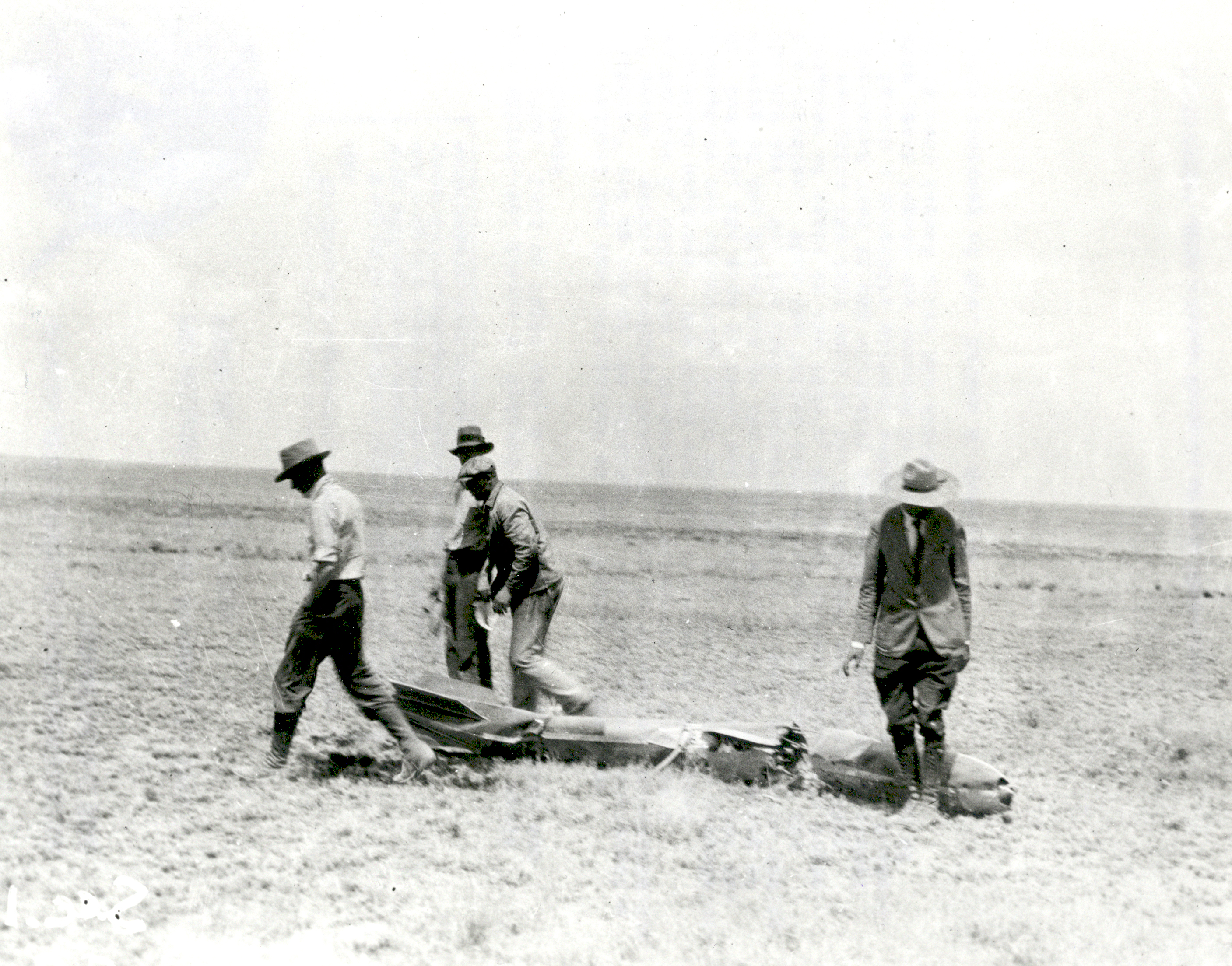 Dr. Robert H. Goddard's rocket after flight in New Mexico on April 19, 1932. Those carrying the rocket are (left to right): Nils Ljungquist, machinist; most likely Charles Mansur, welder; Goddard's brother-in-law and machinist Albert Kisk; and Goddard. The rocket had new guiding vanes controlled by a gyroscope which helped stabilization. In 1930, with a grant from the Guggenheim Foundation, Goddard and his crew moved from Massachusetts to Roswell, New Mexico, to conduct research and perform test flights away from the public eye. This rocket was one of many that he launched in Roswell from 1930-1932 and from 1934-1941. Dr. Goddard has been recognized as the father of American rocketry and as one of the pioneers in the theoretical exploration of space. His dream was the conquest of the upper atmosphere and ultimately space through the use of rocket propulsion. When the United States began to prepare for the conquest of space in the 1950's, American rocket scientists began to recognize the debt owed to the New England professor. They discovered that it was virtually impossible to construct a rocket or launch a satellite without acknowledging the work of Dr. Goddard.